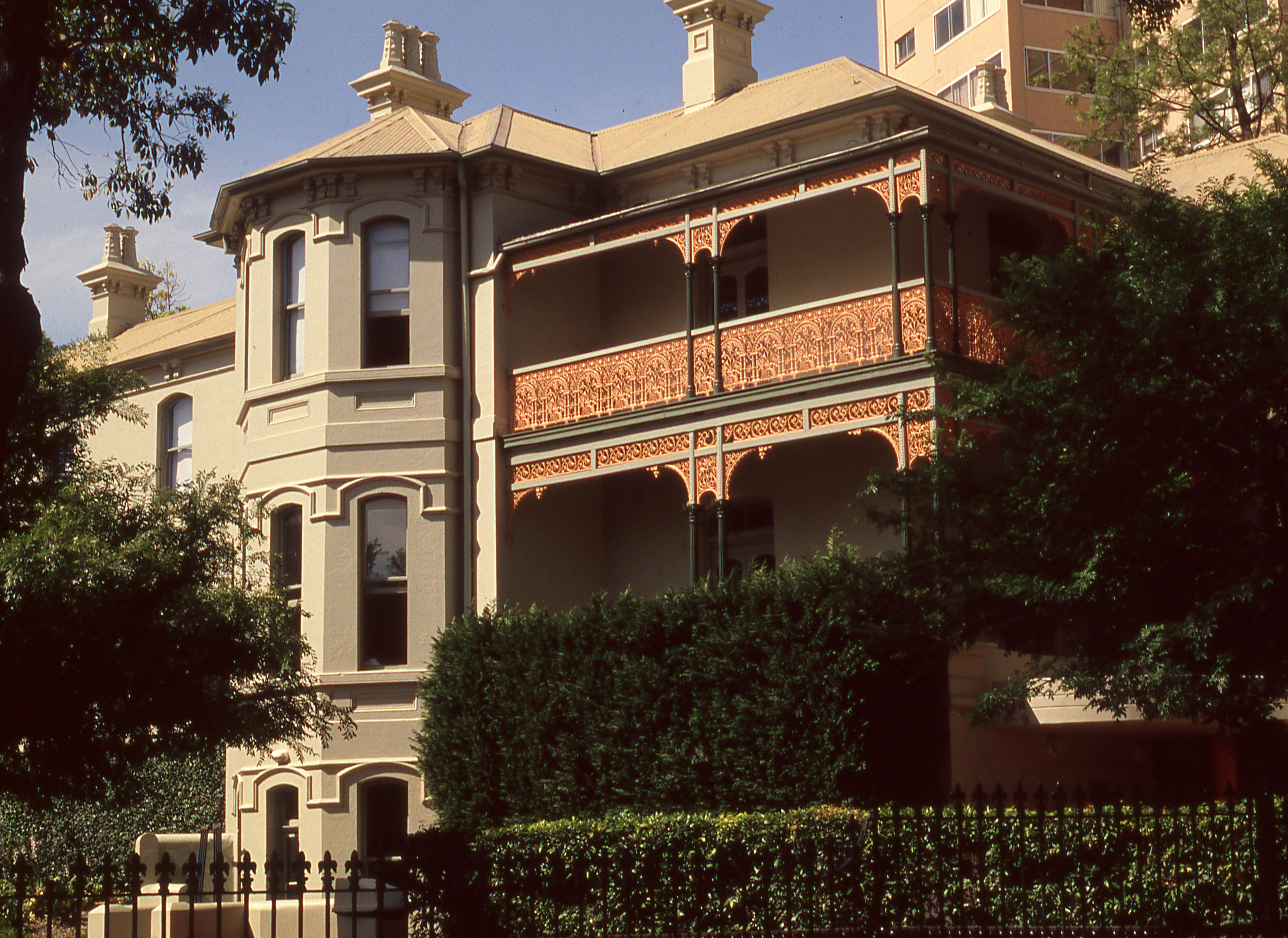 Wyalla, St Aloysius College, Kirribilli, Sydney (Kodachrome slide scanned at 6400)